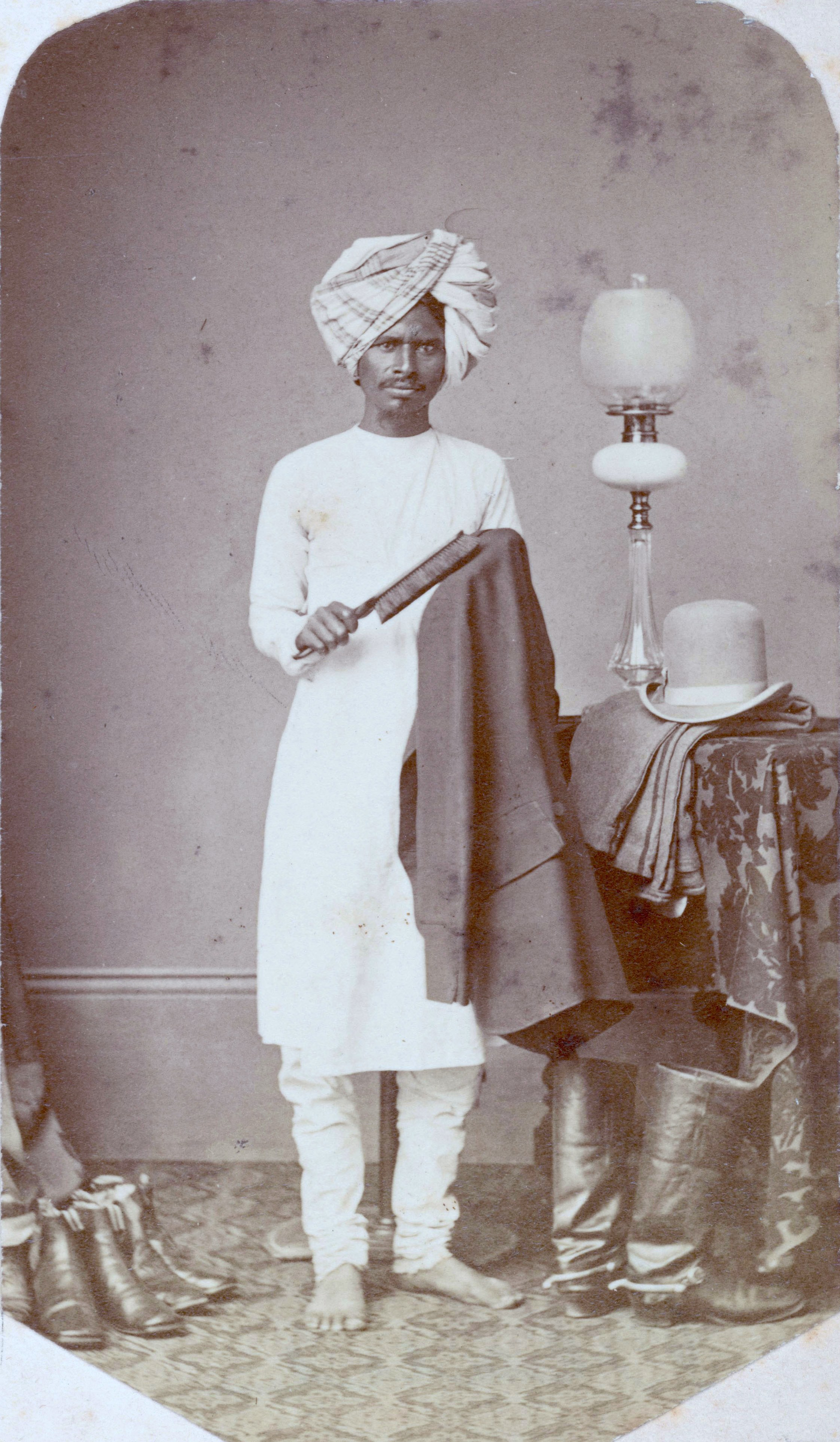 A valet in India, circa 1870. (Photo by Hulton Archive/Getty Images)